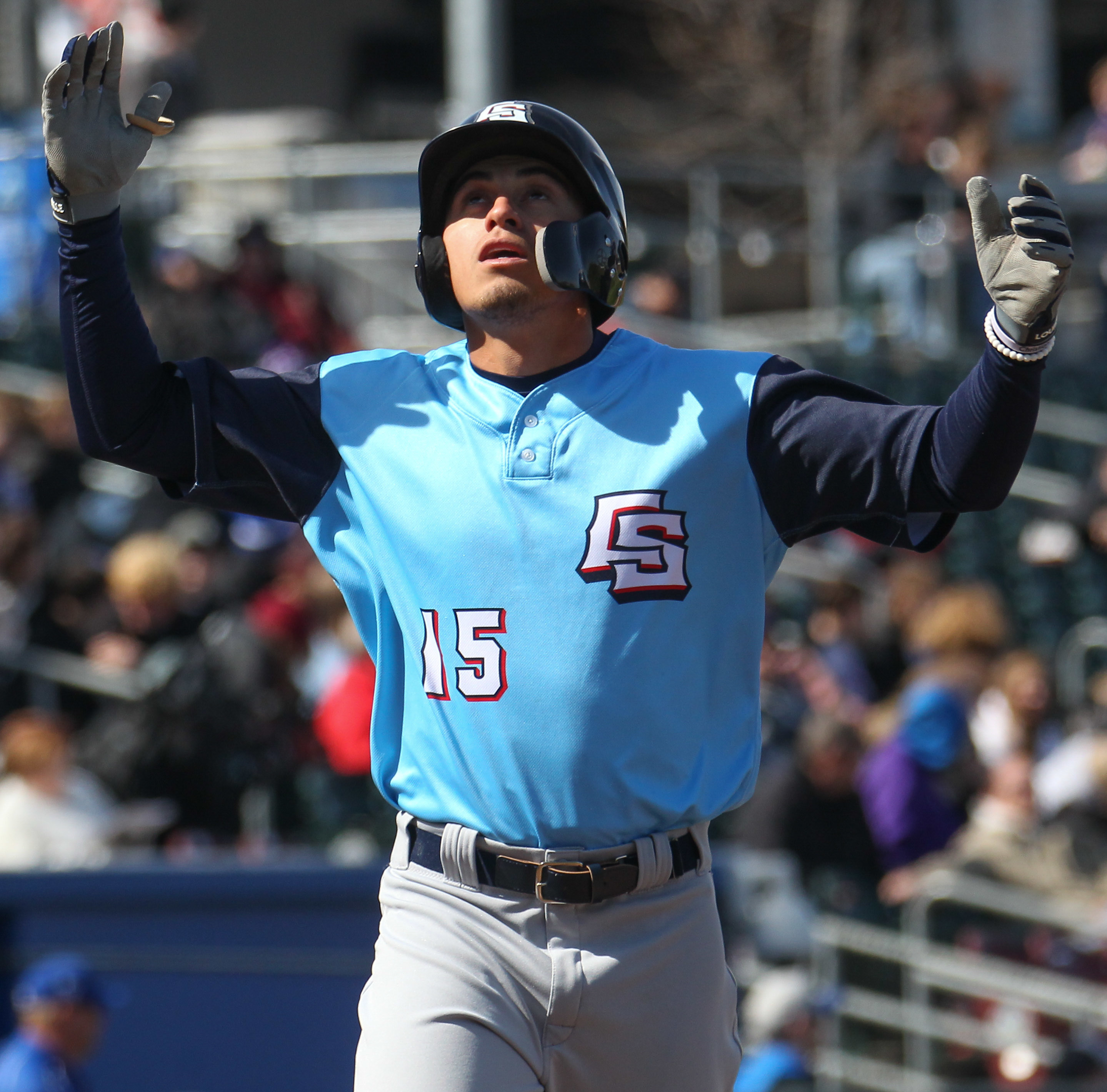 Tyrone Taylor celebrates after hitting a home run for the Colorado Springs Sky Sox during a 2018 game at Werner Park in Nebraska.